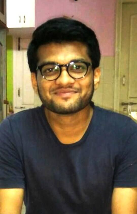 Gujarati language author Jitesh Donga - 2016